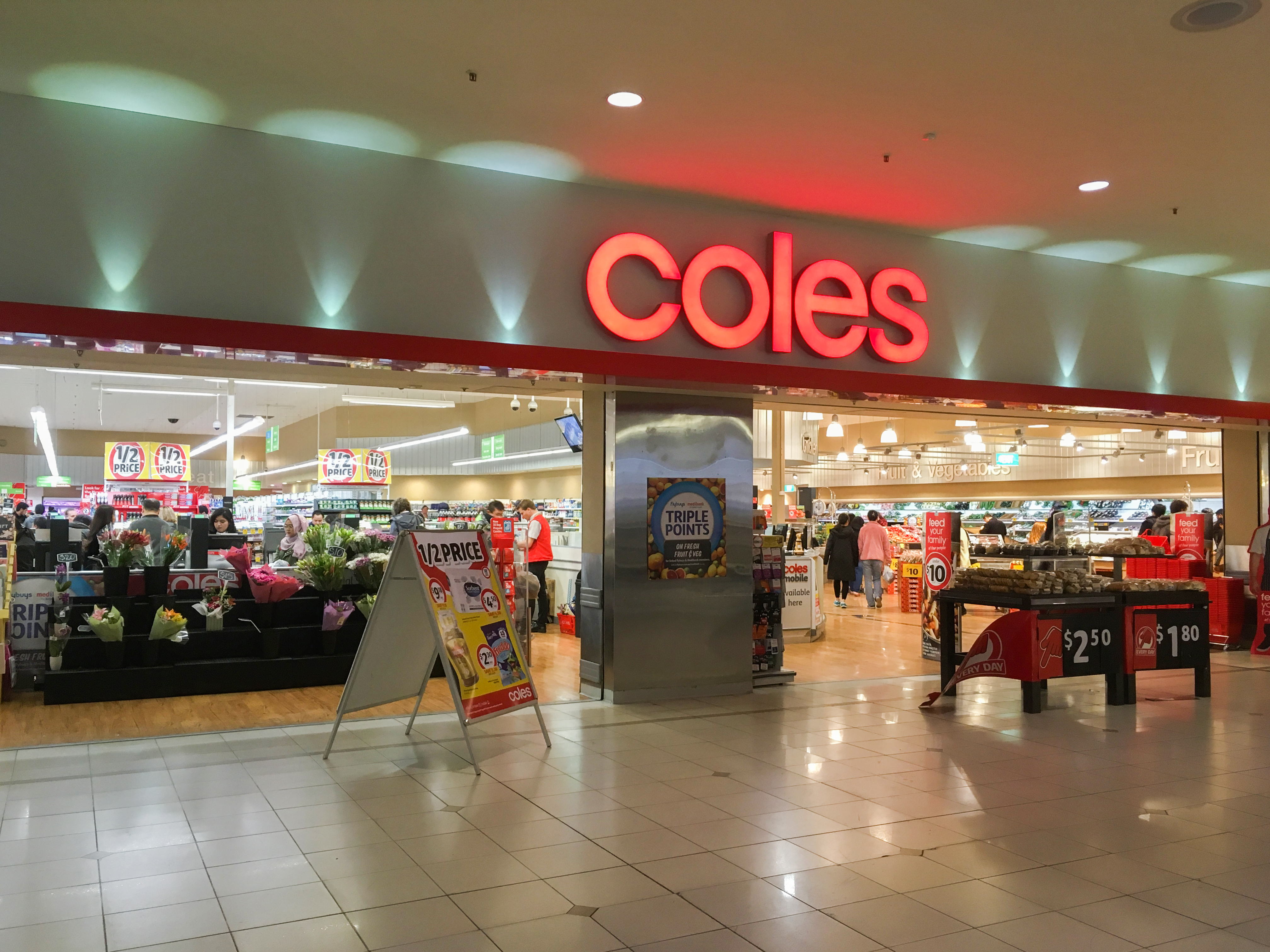 Coles in Chadstone Shopping Centre